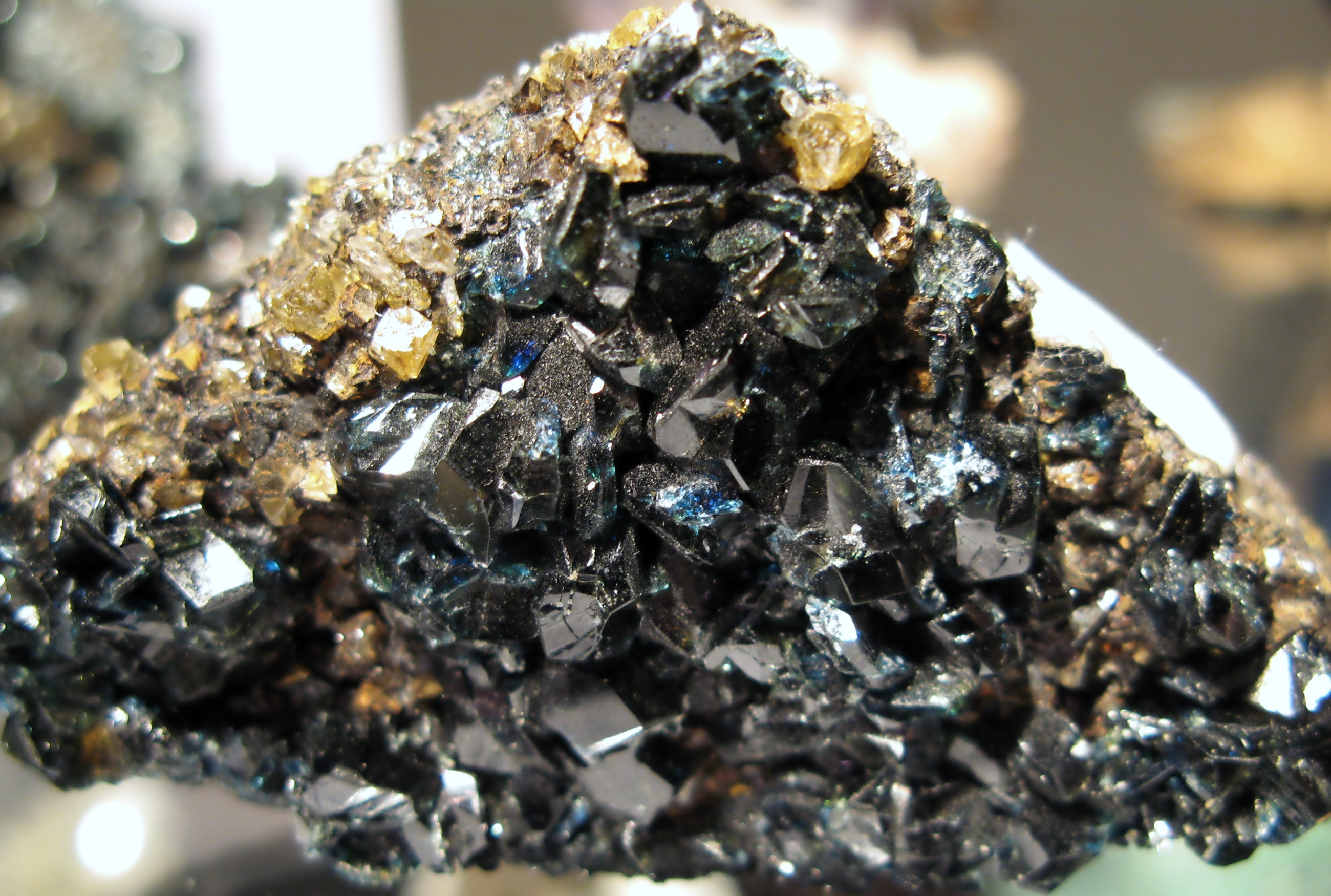 Lazulite - Rapid Creek, Yukon (territory), Canada